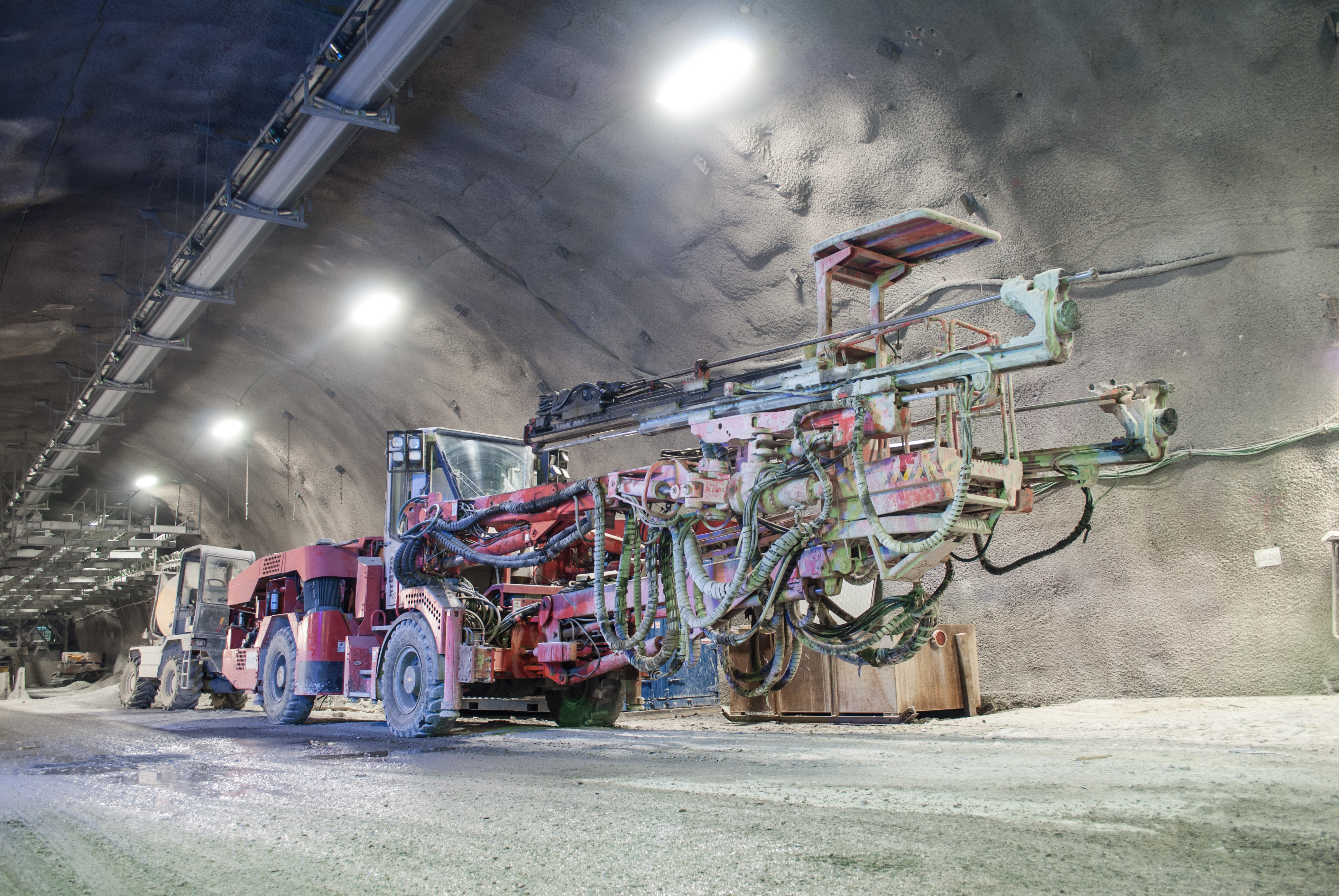 Drilling jumbo used in the Ceneri Base Tunnel